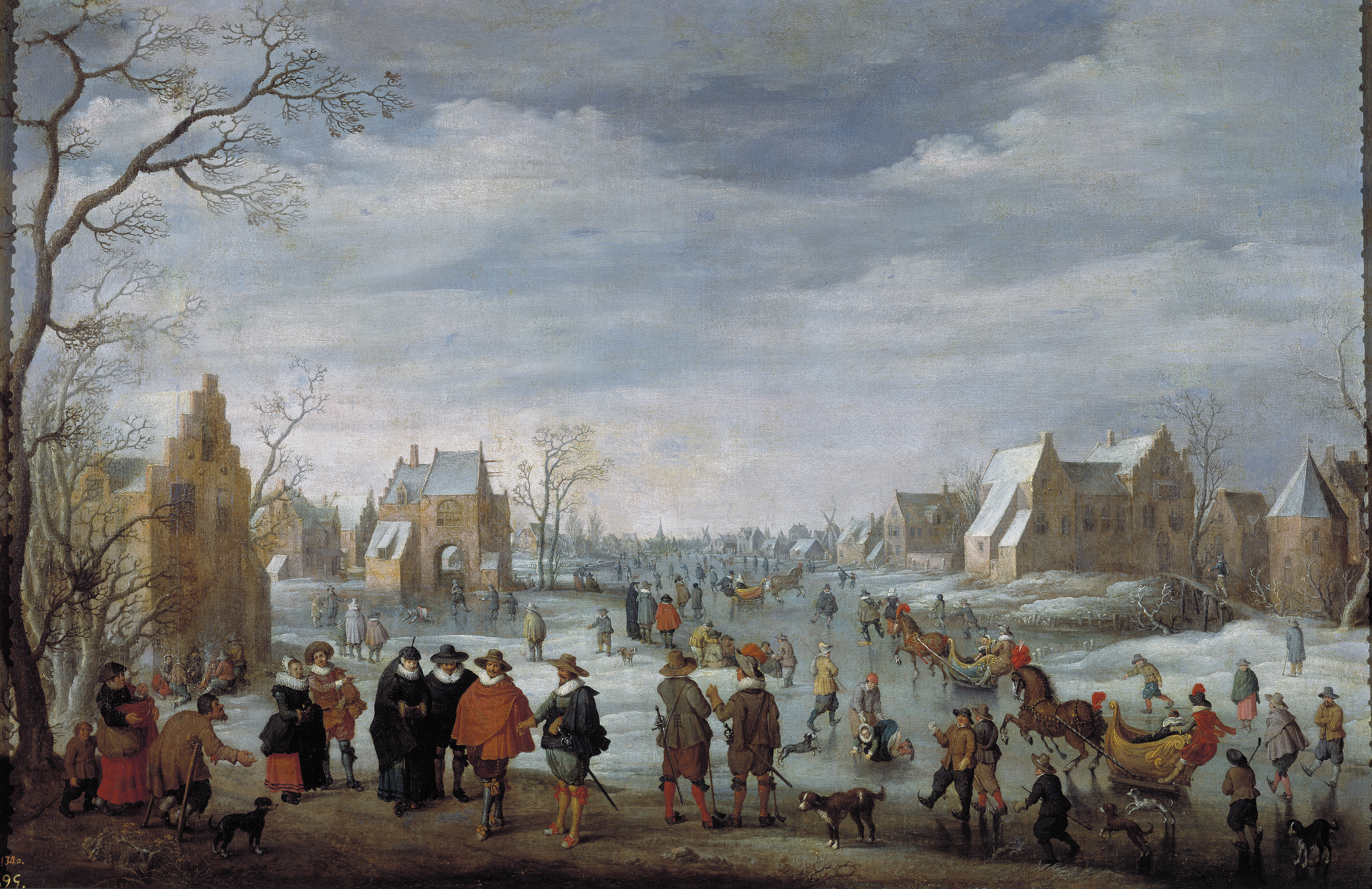 Winter Landscape with skaters